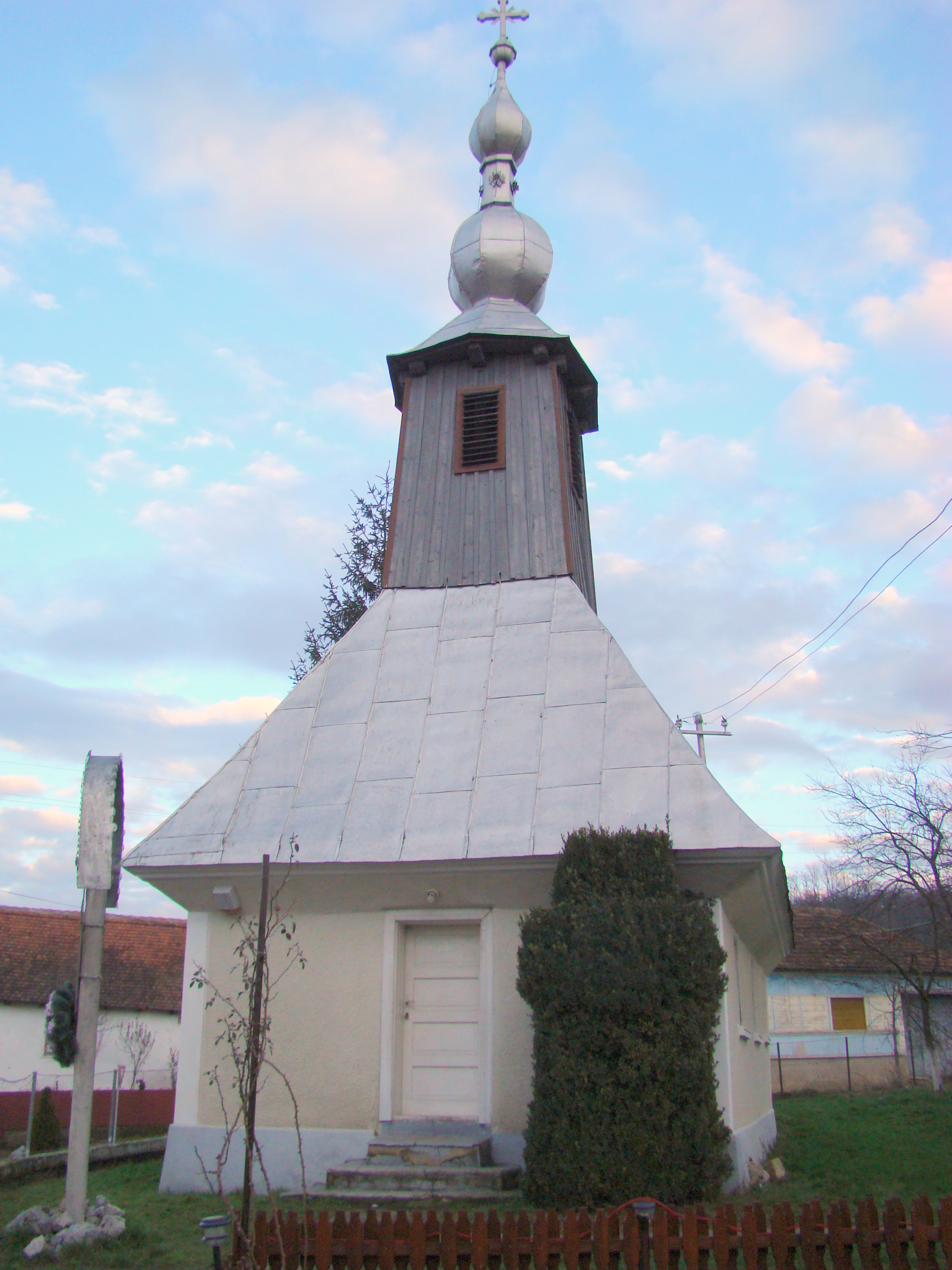 Rotărești, Bihor county, Romania: the wooden church